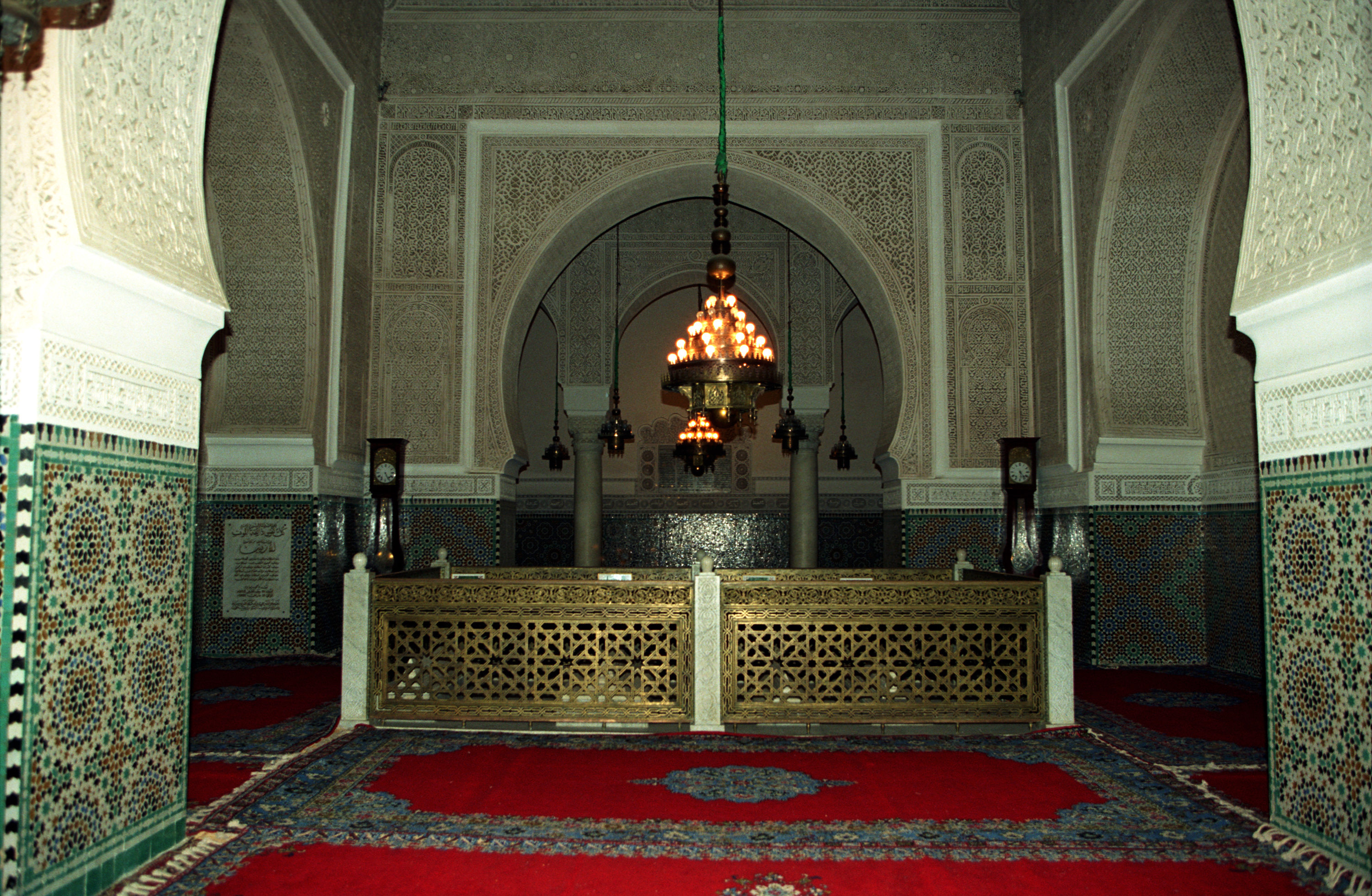 Mausoleum of Moulay Ismail, Meknes, Morocco